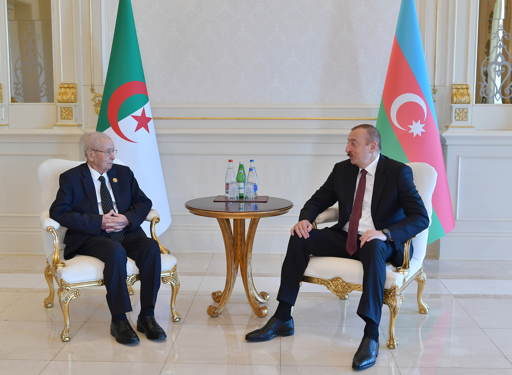 Ilham Aliyev met with President of Algeria Abdelqader Bensalah